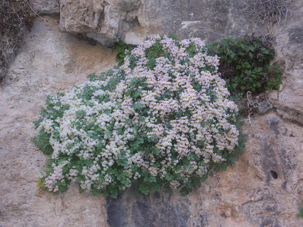 Plant in danger of extinction, found in south Spain mountain ranges.